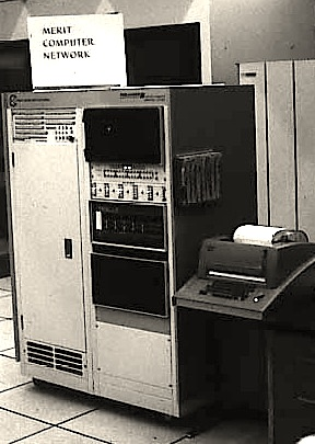 Merit Network PDP-11 based Primary Communications Processor (PCP) with custom high speed communication and IBM I/O channel interfaces, photograph taken on the 2nd floor of the University of Michigan Computing Center Building, Ann Arbor, MI., circa 1975